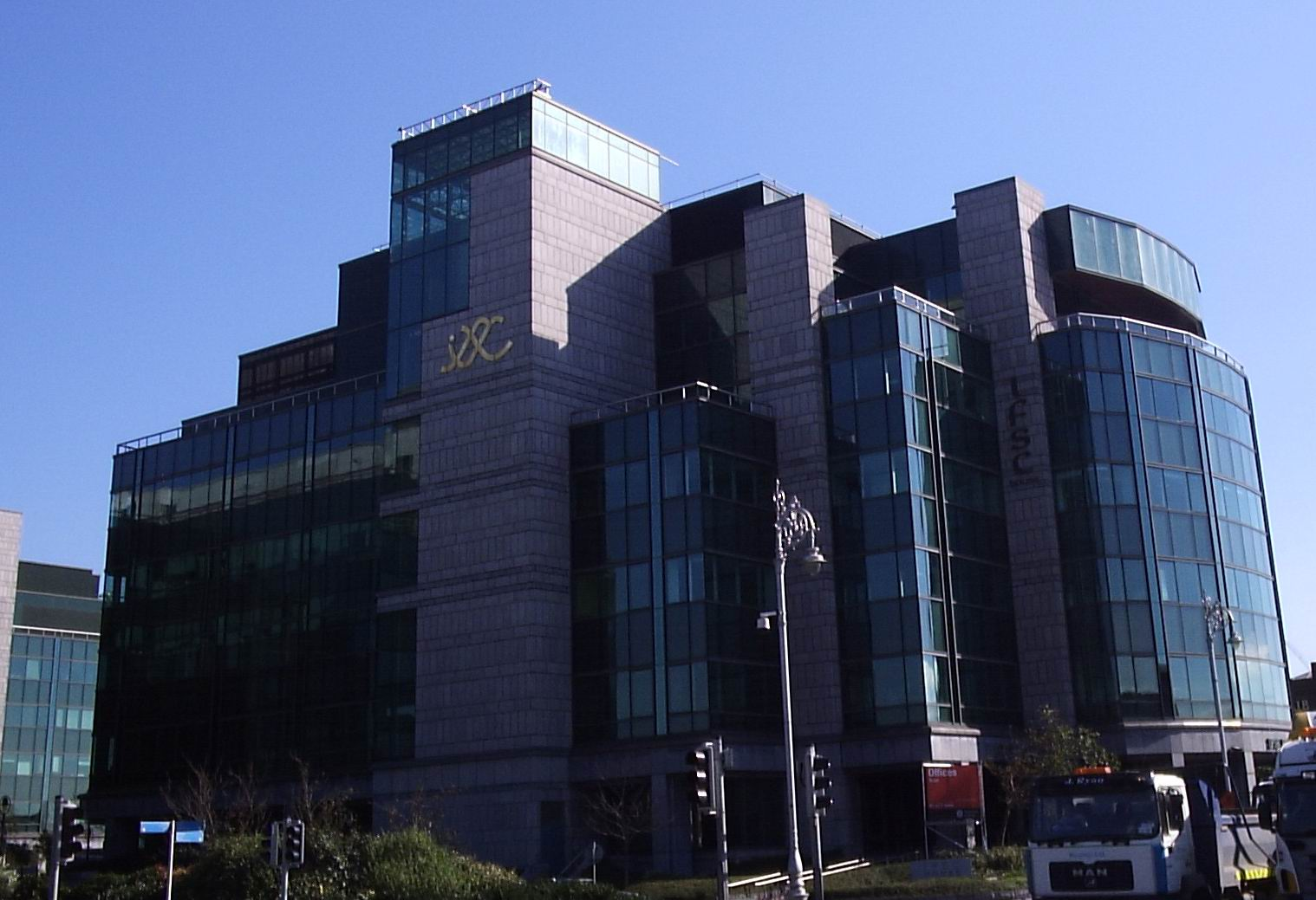 International Financial Services Centre Dublin